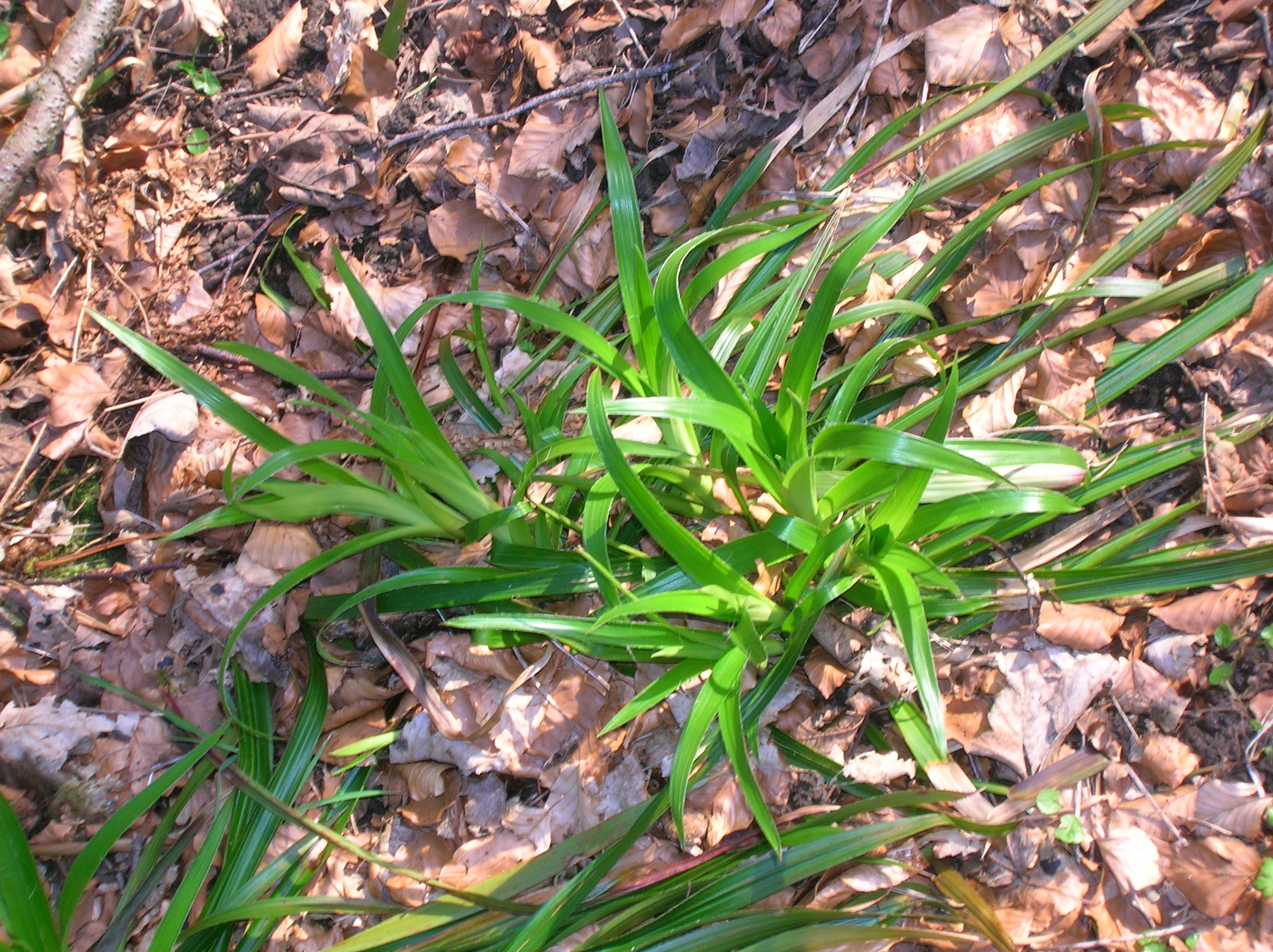 Greater Woodrush (Luzula sylvatica)in early spring with new and overwintered leaves